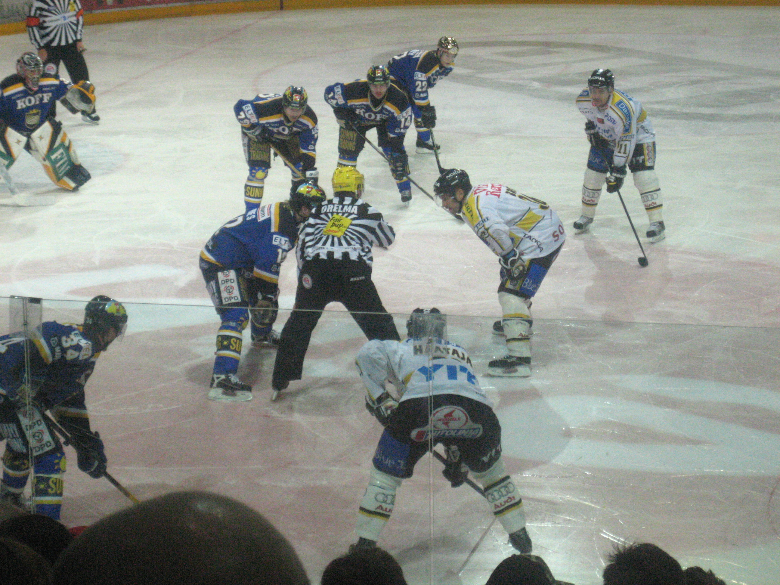 Blues vs. Kärpät April 1st 2006, decisive playoff game. In the faceoff Esa Pirnes (Blues) and Michal Bros (Kärpät).